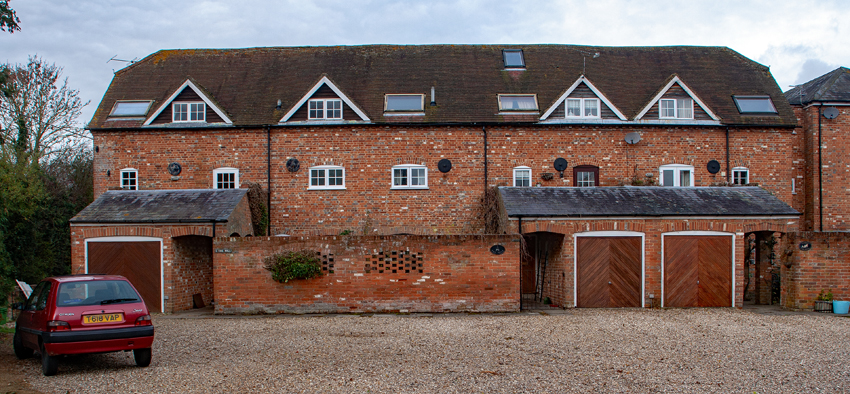 Chamberhouse Mill, Thatcham, now converted to private accomodation